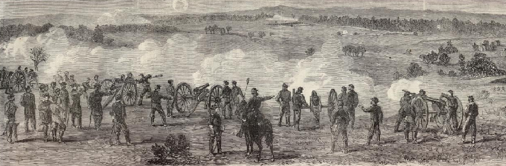 Kellysford